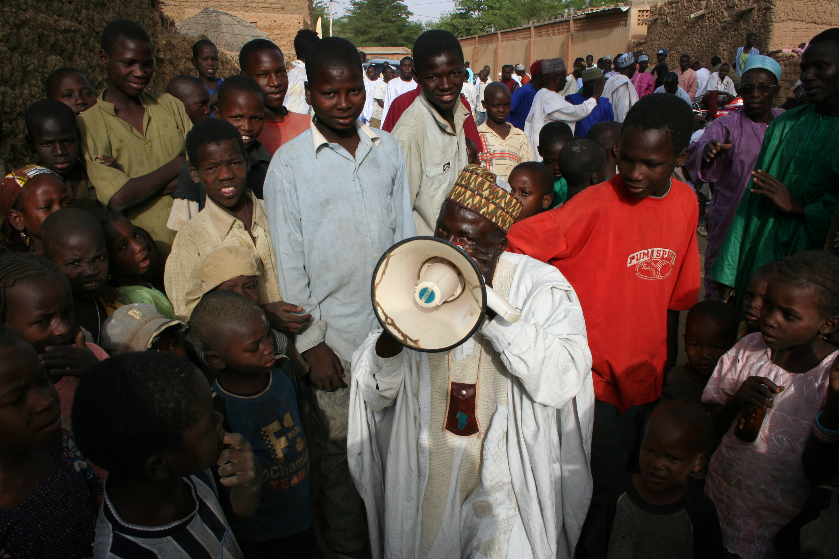 March 16, 2009 - In Kantché, we attended a wedding. This photo was taken just before the groom arrived. It was crazy. The guy with the loudspeaker ran around, gathering people. When he saw us, he kept on posing like this until I took the picture.